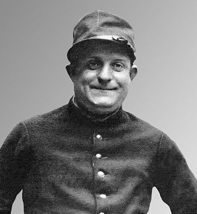 French singer Polin (1863-1927) circa 1900